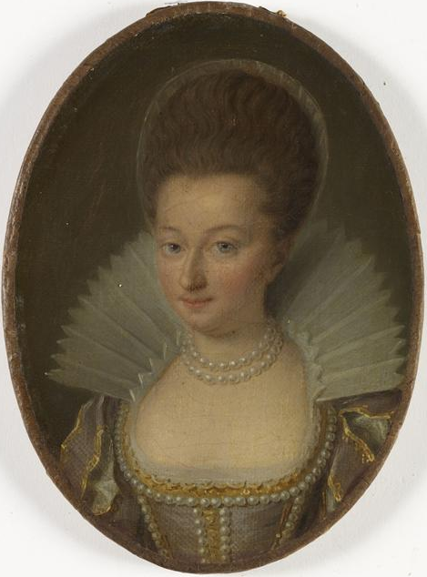 Charlotte-Catherine de La Trémoille, Princess of Condé by Ribou